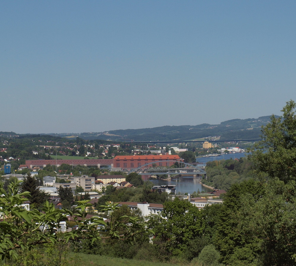 Valey of the Danube in Passau to West